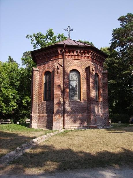 Birutė chapel in Palanga, Lithuania